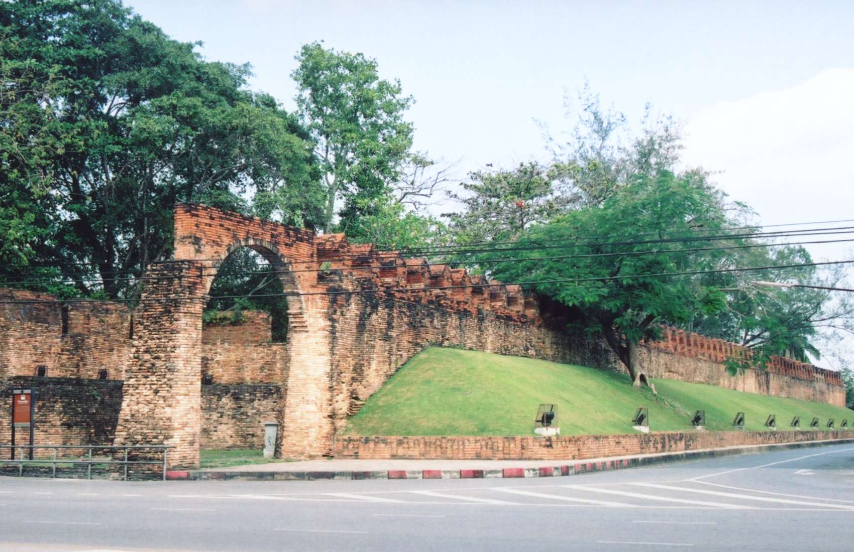 Historic city wall of Nakhon Si Thammarat, Thailand. Photo taken by User:Ahoerstemeier on January 19 2005.